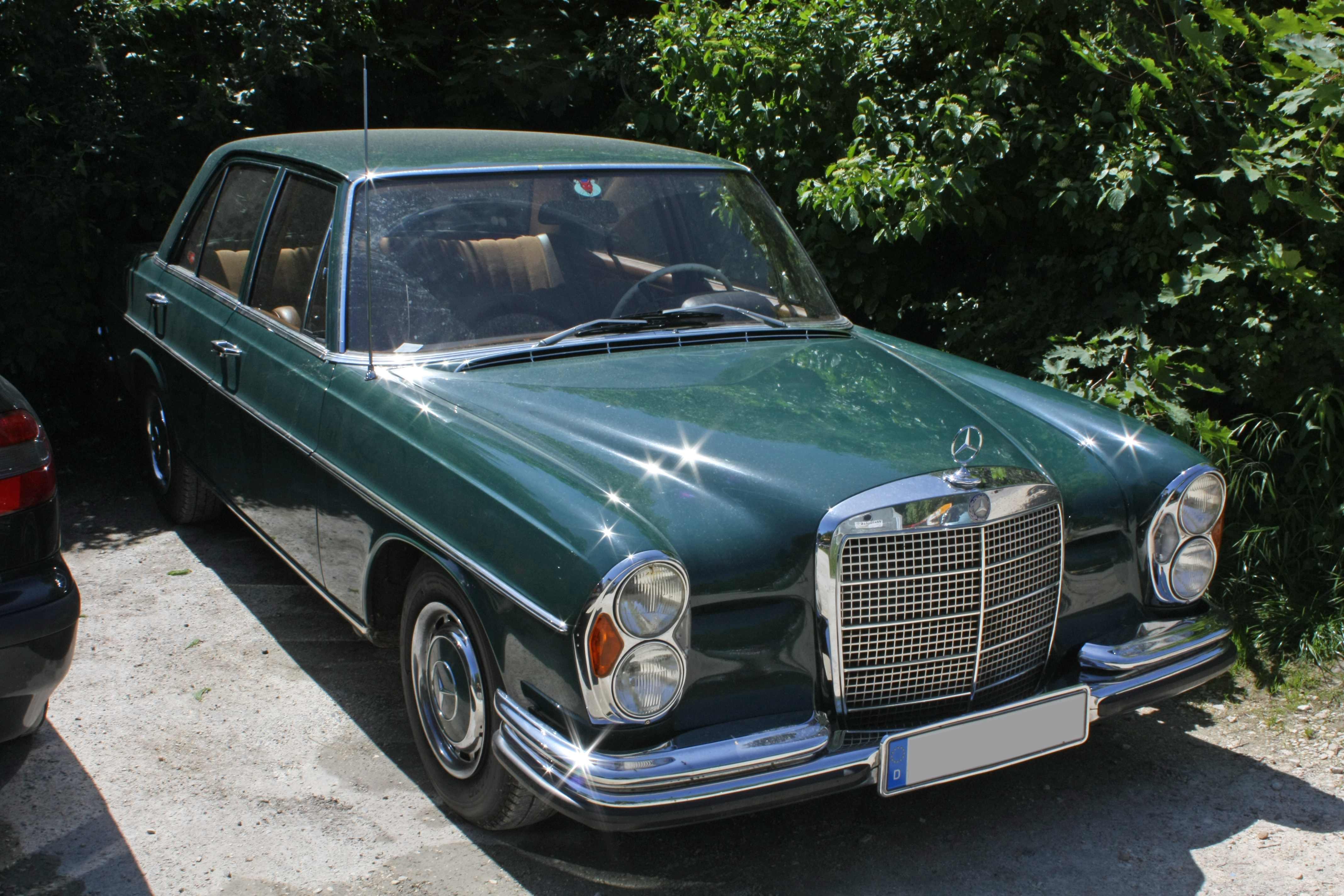 Mercedes-Benz W108